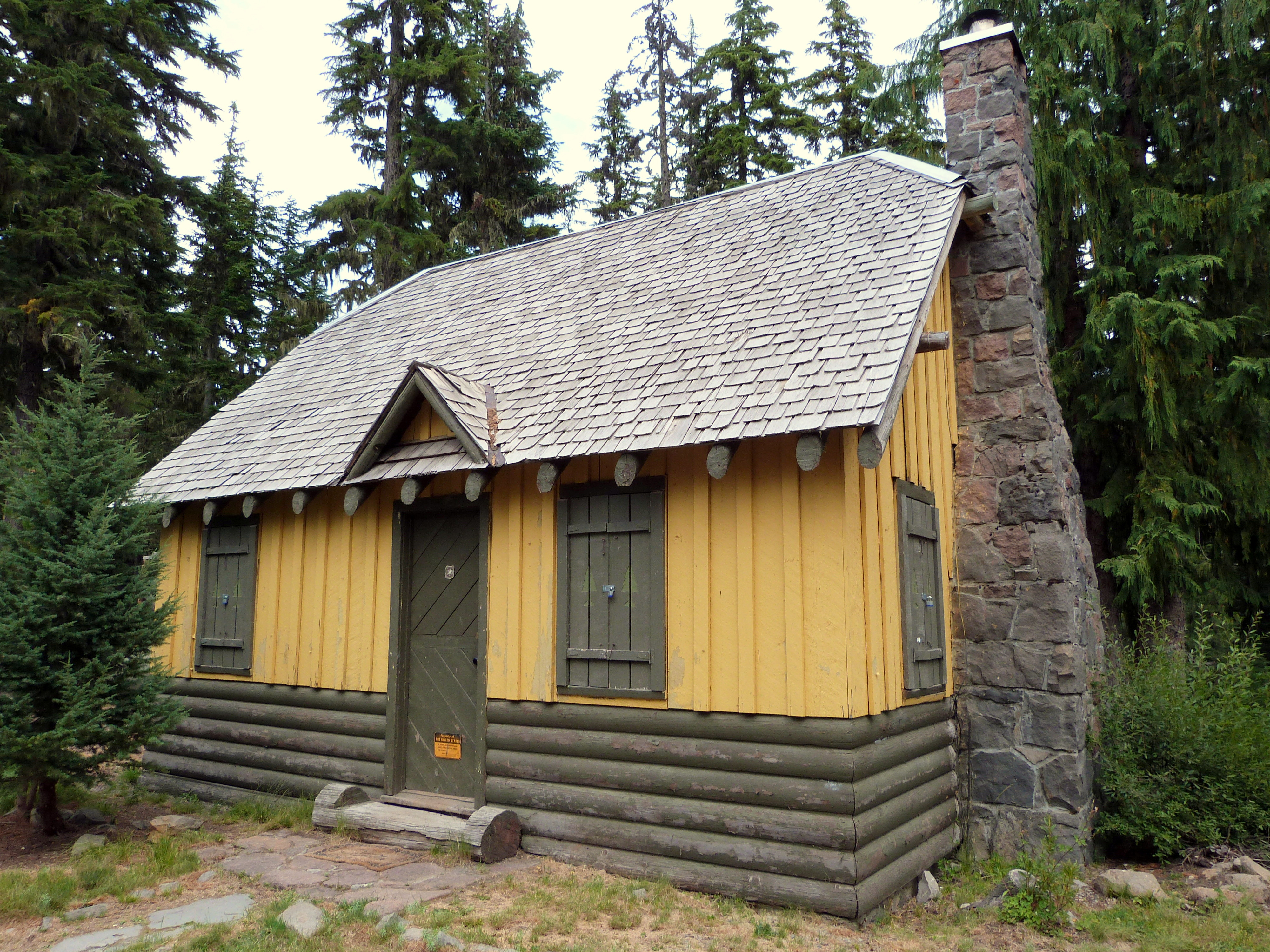 The historic Olallie Lake Guard Station (built 1939), located on Forest Road 4220 near Olallie Lake in Mount Hood National Forest, Oregon, United States, is listed on the US National Register of Historic Places.